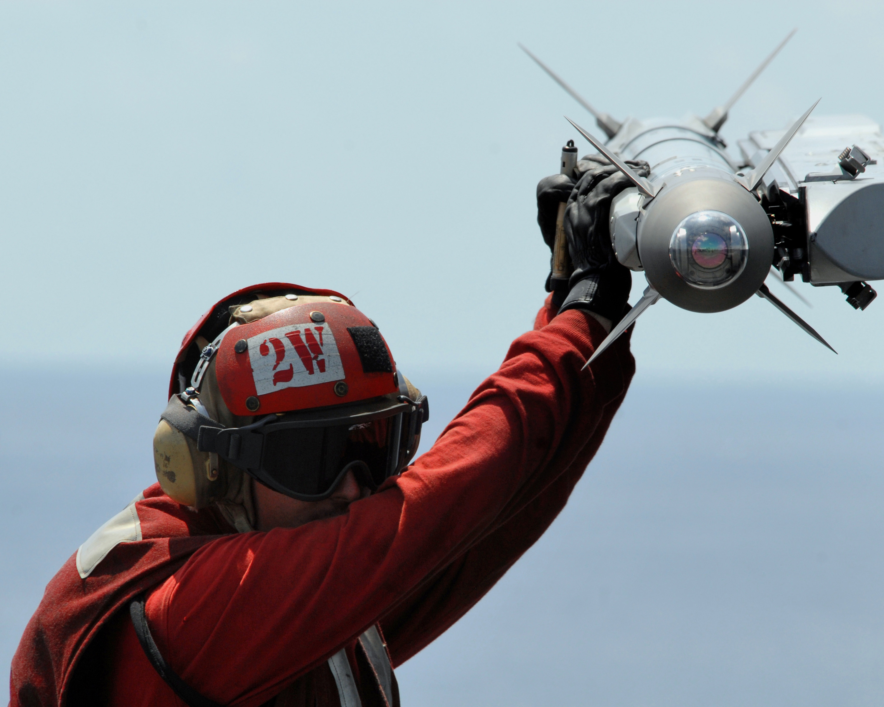 AIM-9X on F/A-18E